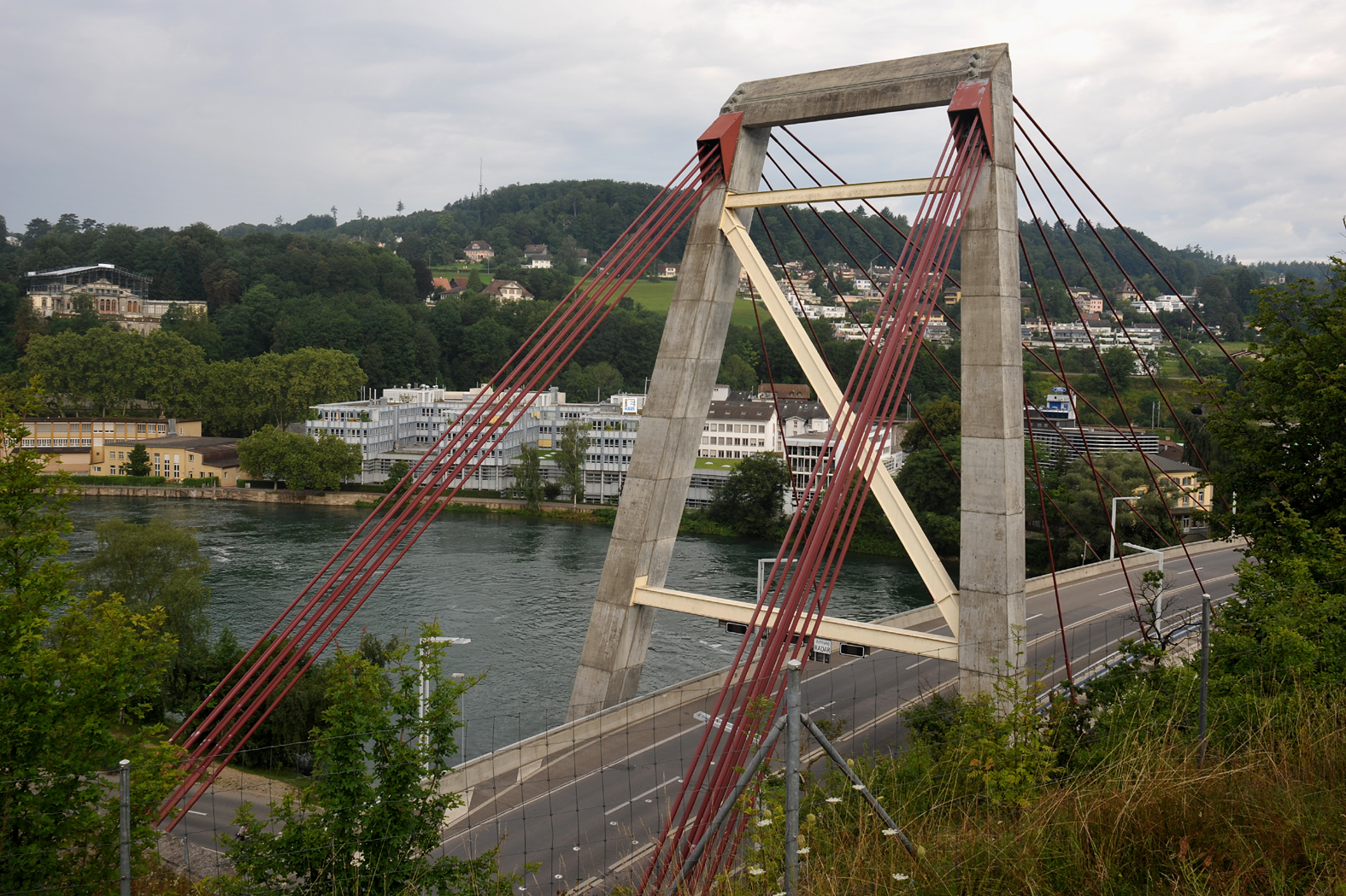 Highway bridge over river Rhine between Schaffhausen and Flurlingen; Schaffhausen and Zurich, Switzerland.